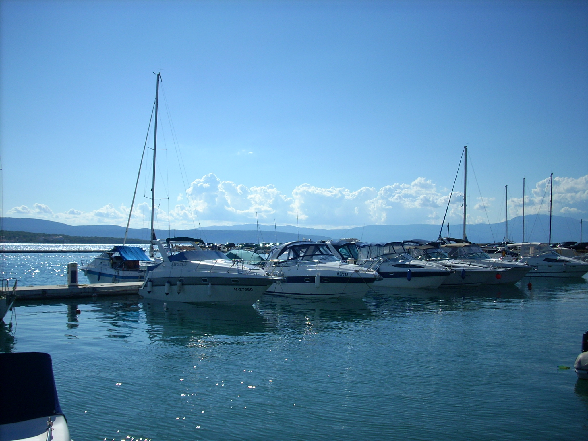 Malinska, Island Krk, Croatia. Port detail, view towards the northwest.